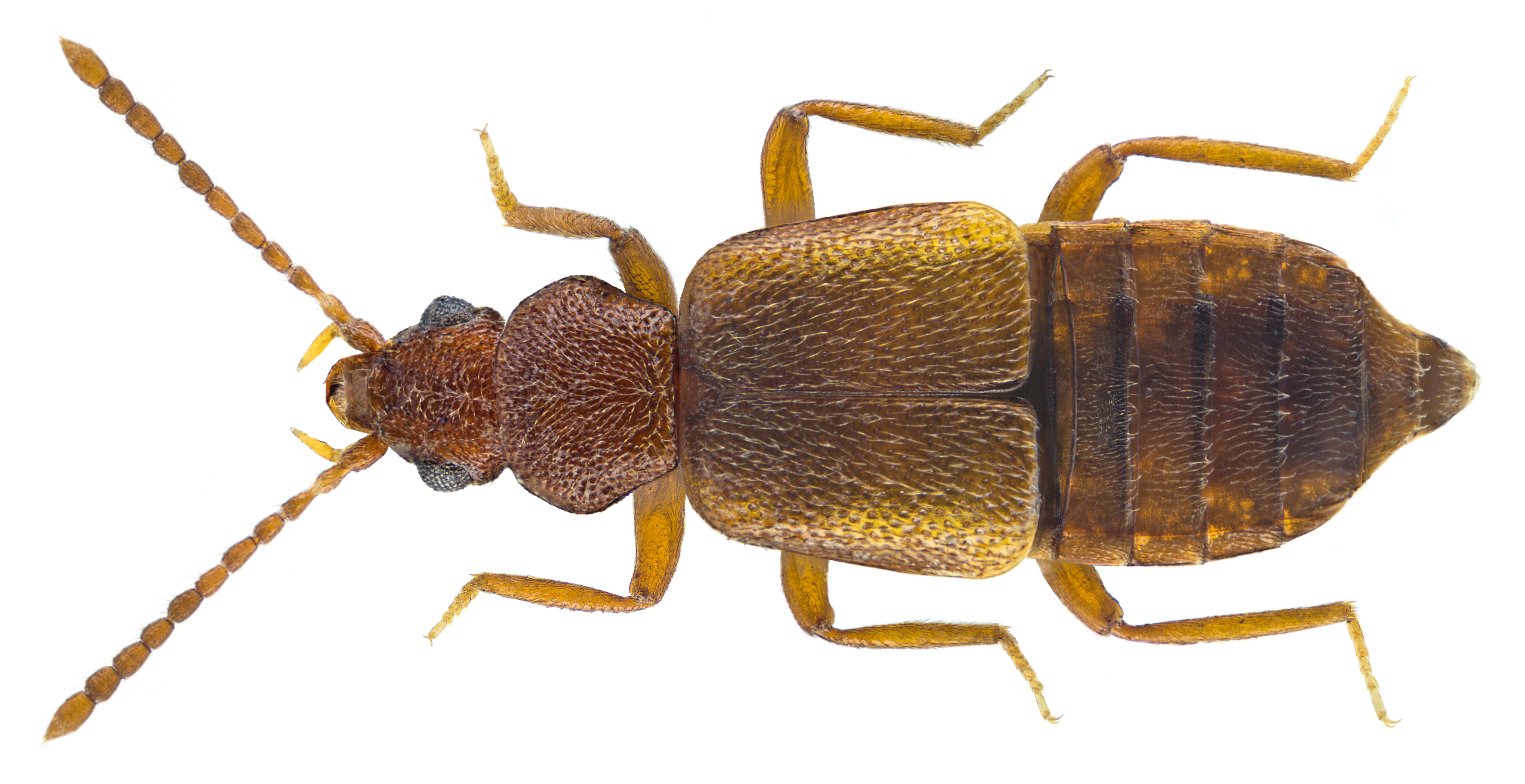 Family: Staphylinidae Size: 4,0 mm (3,5 to 4,0 mm) Distribution: Central and West Europe Ecology: lives on moist meadows, in bogs and on cultivated land Location: Germany, Nordrhein-Westfalen, Moenchengladbach, Ritzeroder Heide leg. J.Scheuern, 19.V.1990; det. Wunderle, 1990 Photo: U.Schmidt, 2015